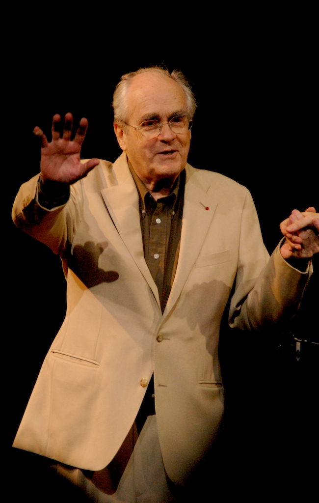 Michel Legrand concert at Haymarket 13th april 2008.